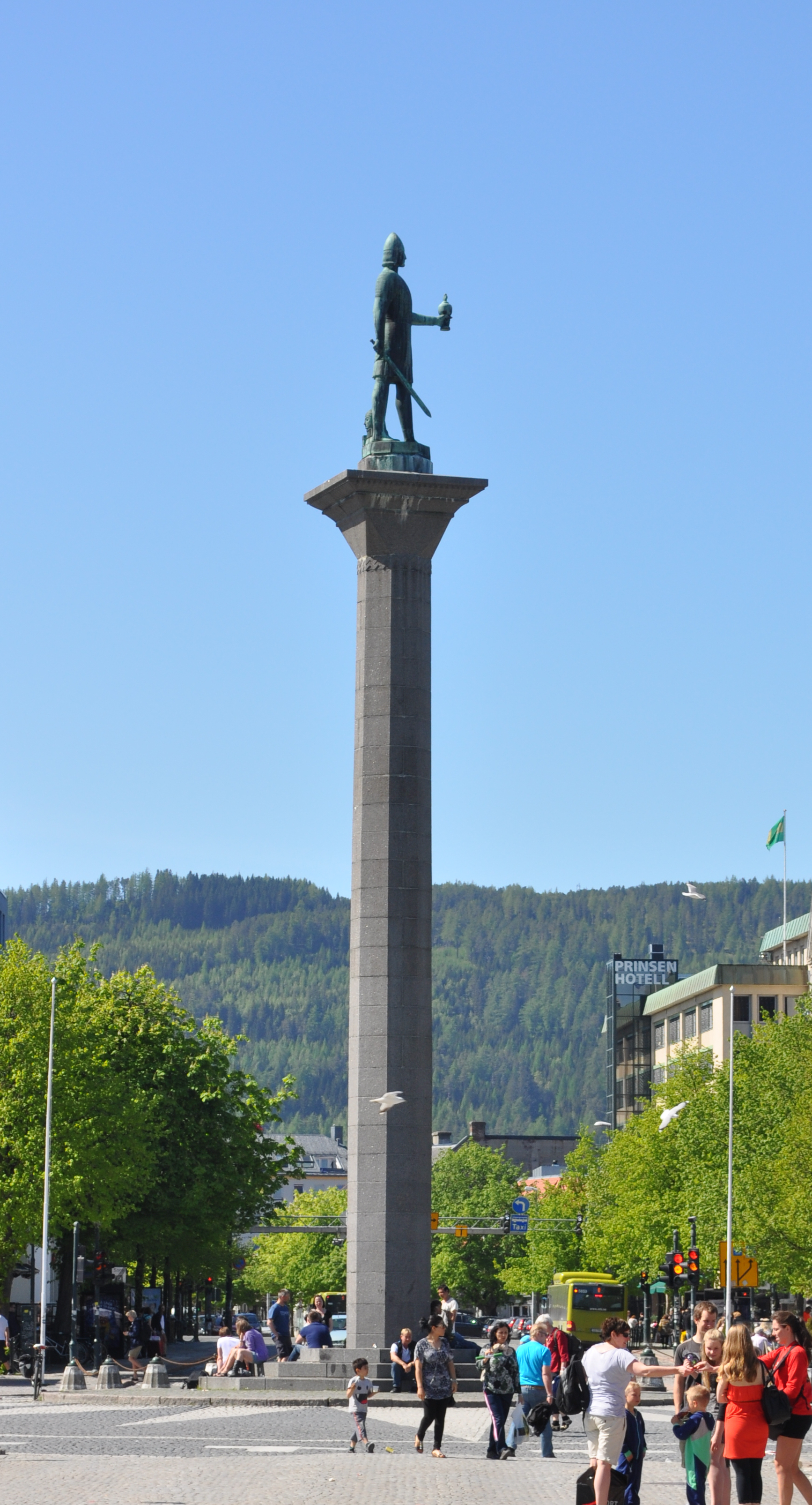 Olav Tryggvasson Monument in Trondheim